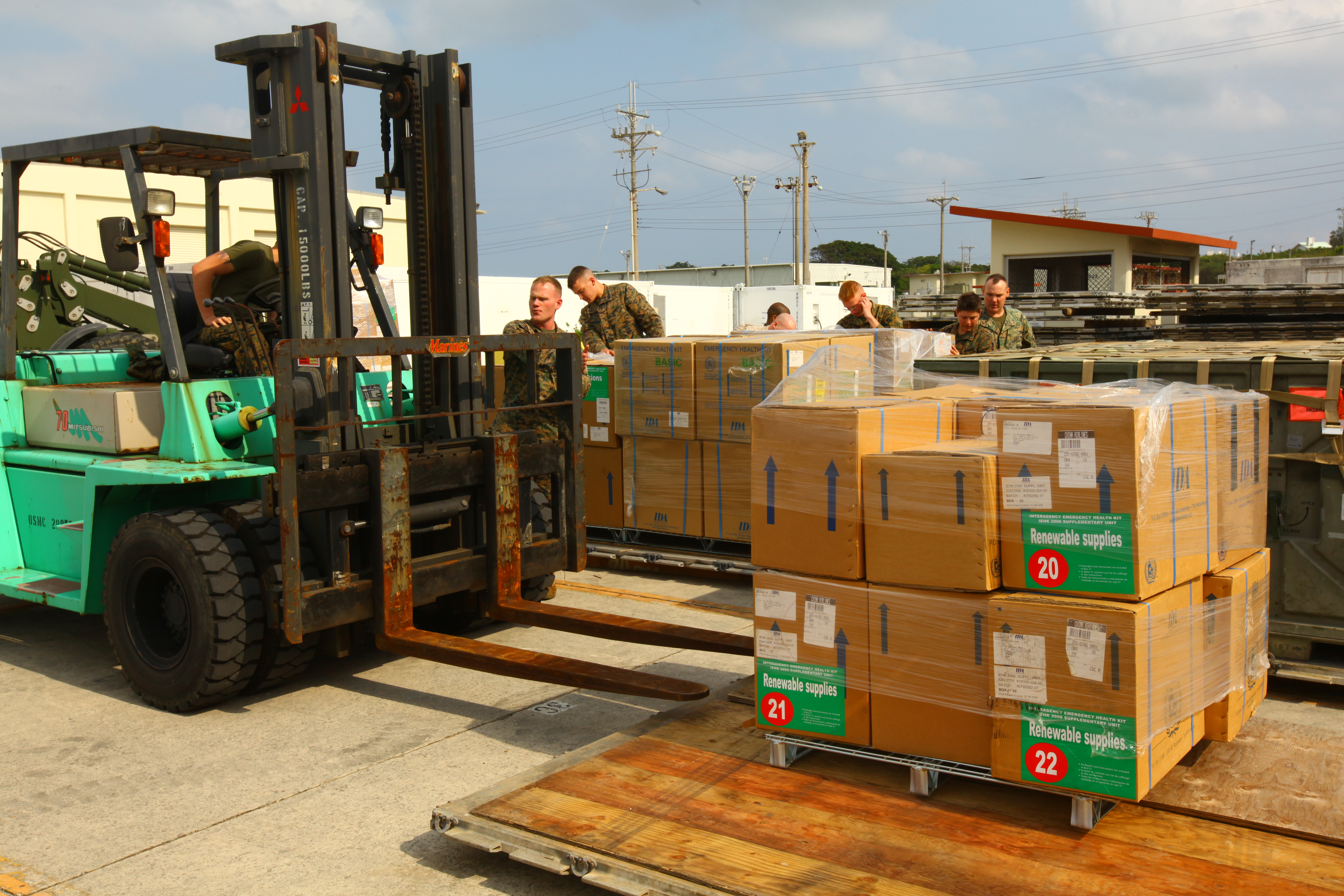 FUTENMA, Japan (March 12, 2011) Marines assigned to III Marine Expeditionary Force (III MEF) load humanitarian assistance supplies and personnel aboard C-130 aircraft bound for mainland Japan at Marine Corps Air Station Futenma as part of Operation Tomodachi. The aid will assist Japanese citizens devastated by a massive earthquake and tsunami, which struck northern Japan on March 11. (U.S. Marine Corps photo by Lance Cpl. Steven Acuff/Released)